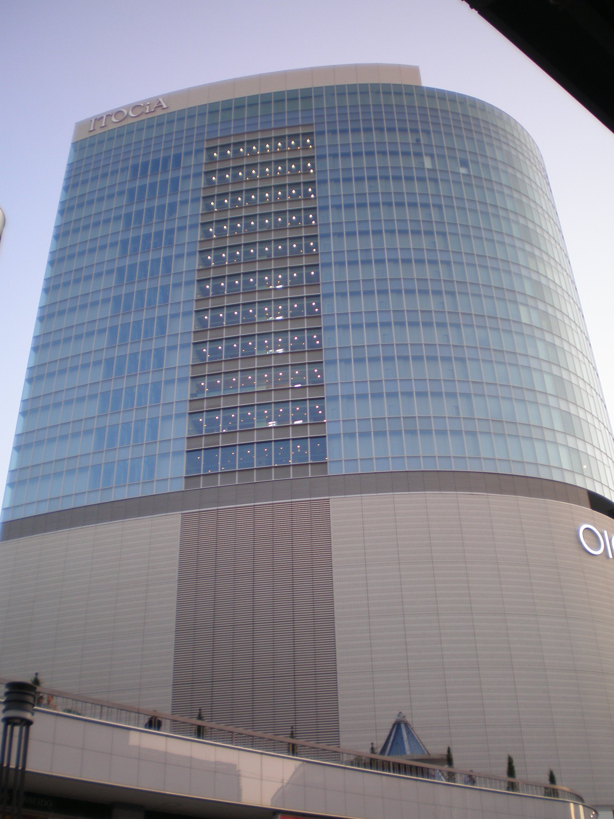 Yurakucho Itocia